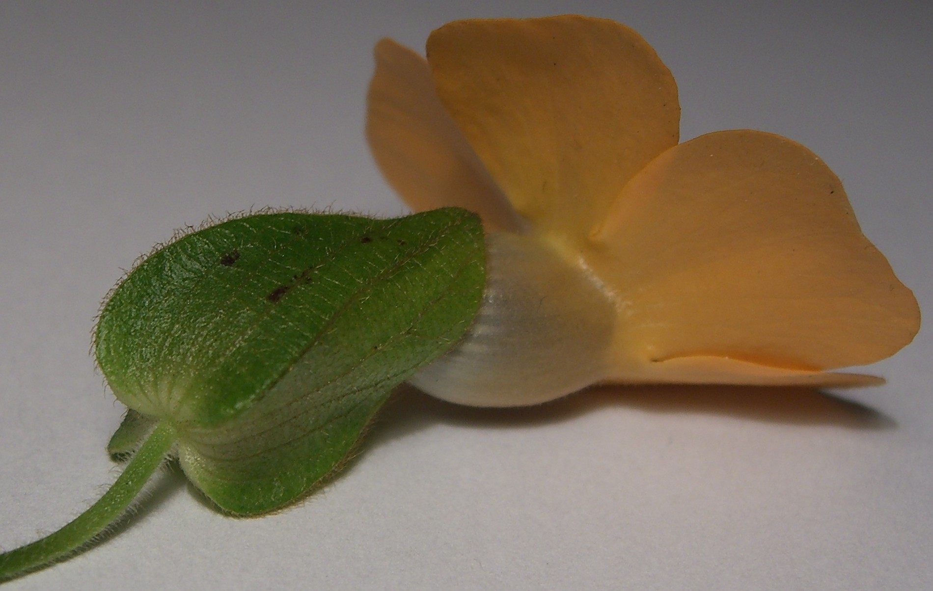 Description: Detail of the blossom of Thunbergia alata